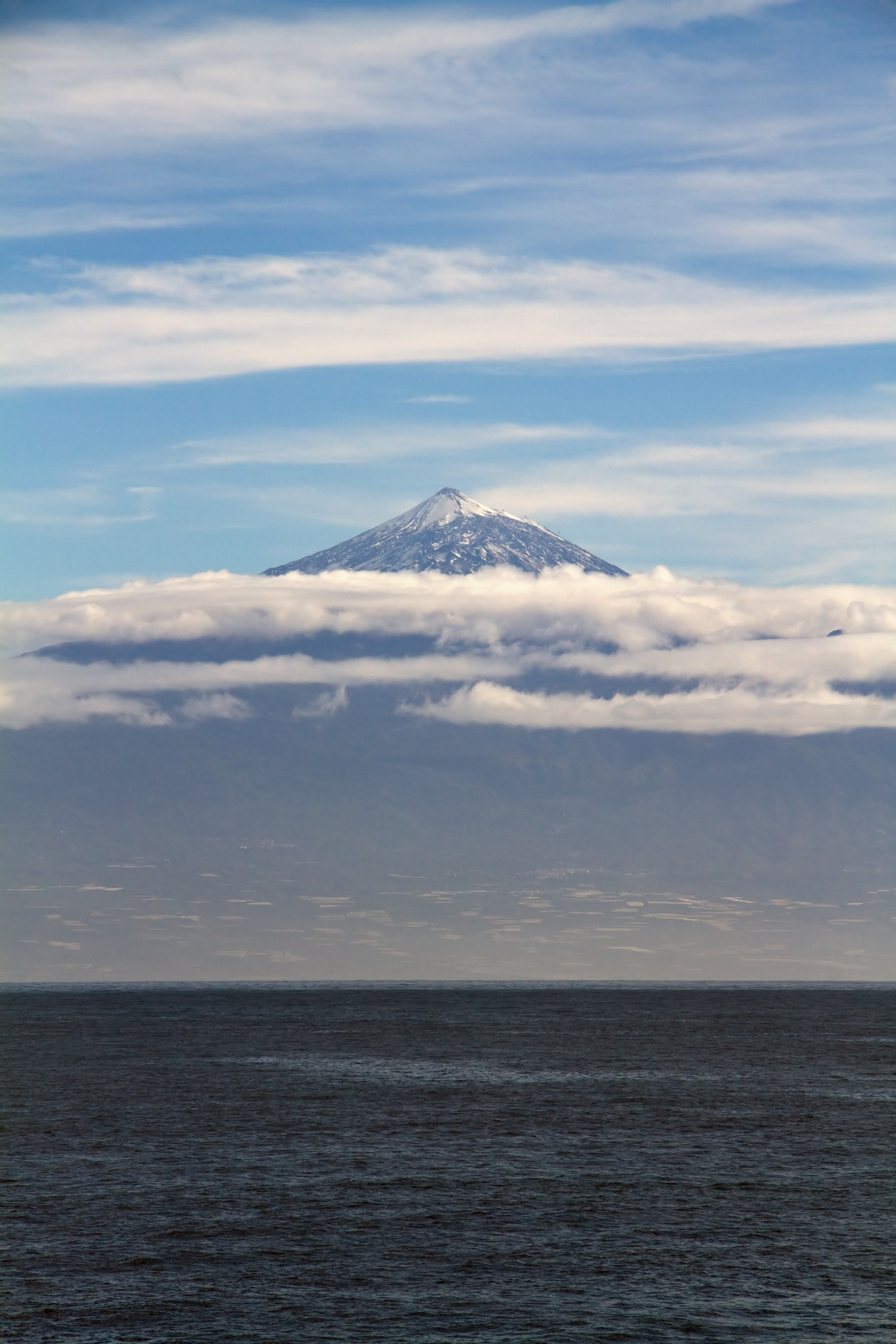 Mount Teide from the Ferry 1